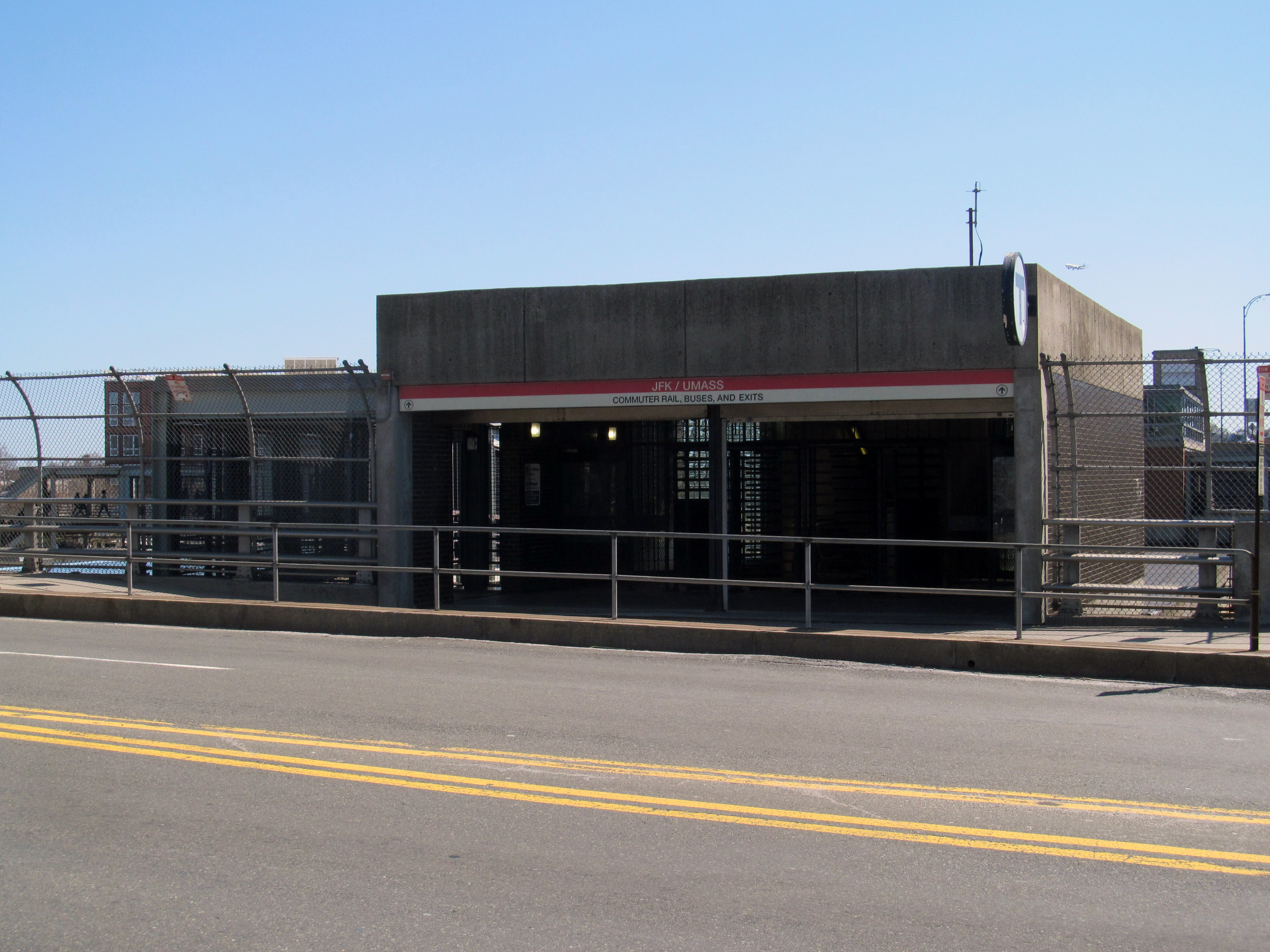 Entrance to JFK/UMass station from Columbia Road in April 2016